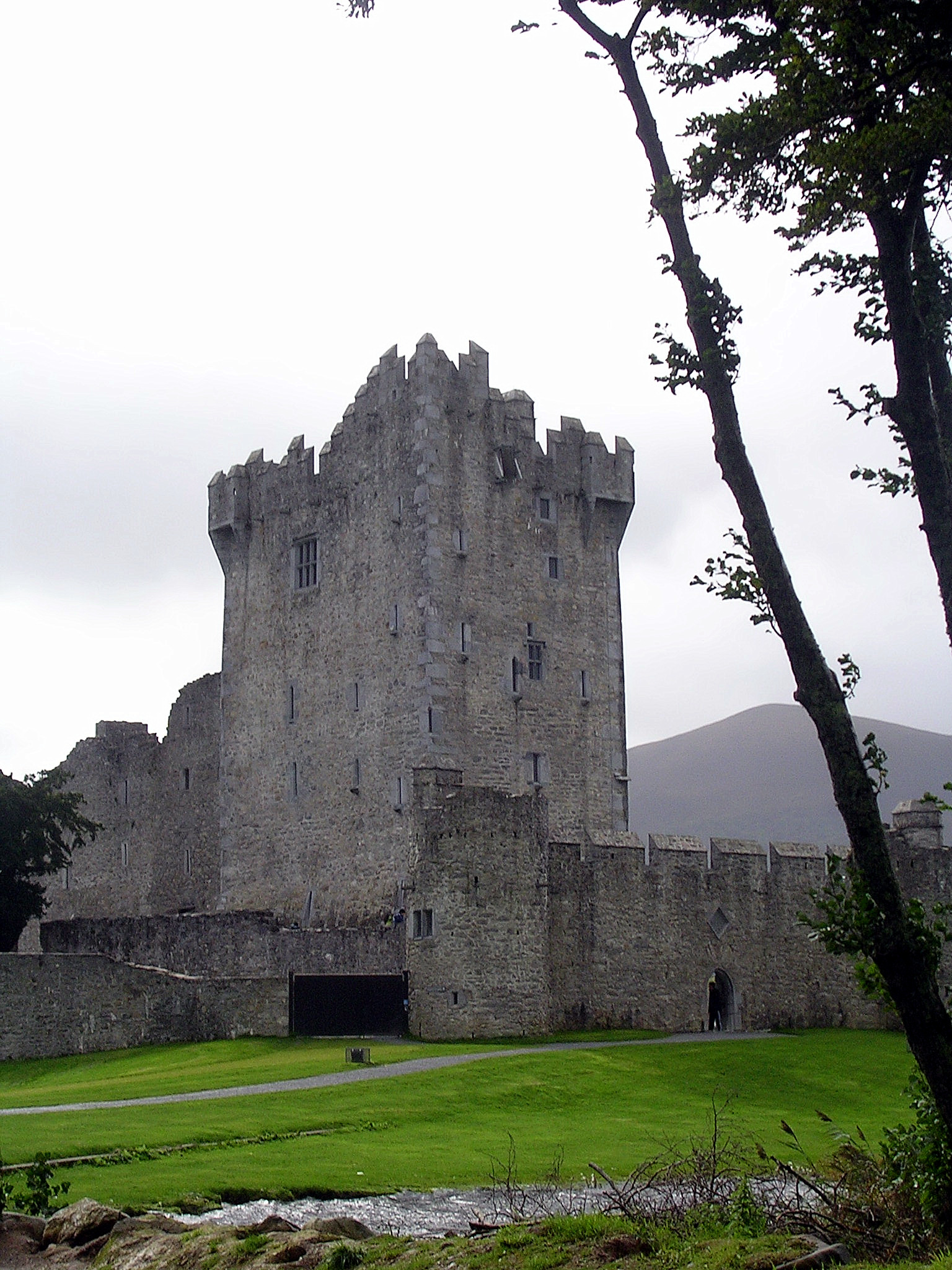 Ross Castle